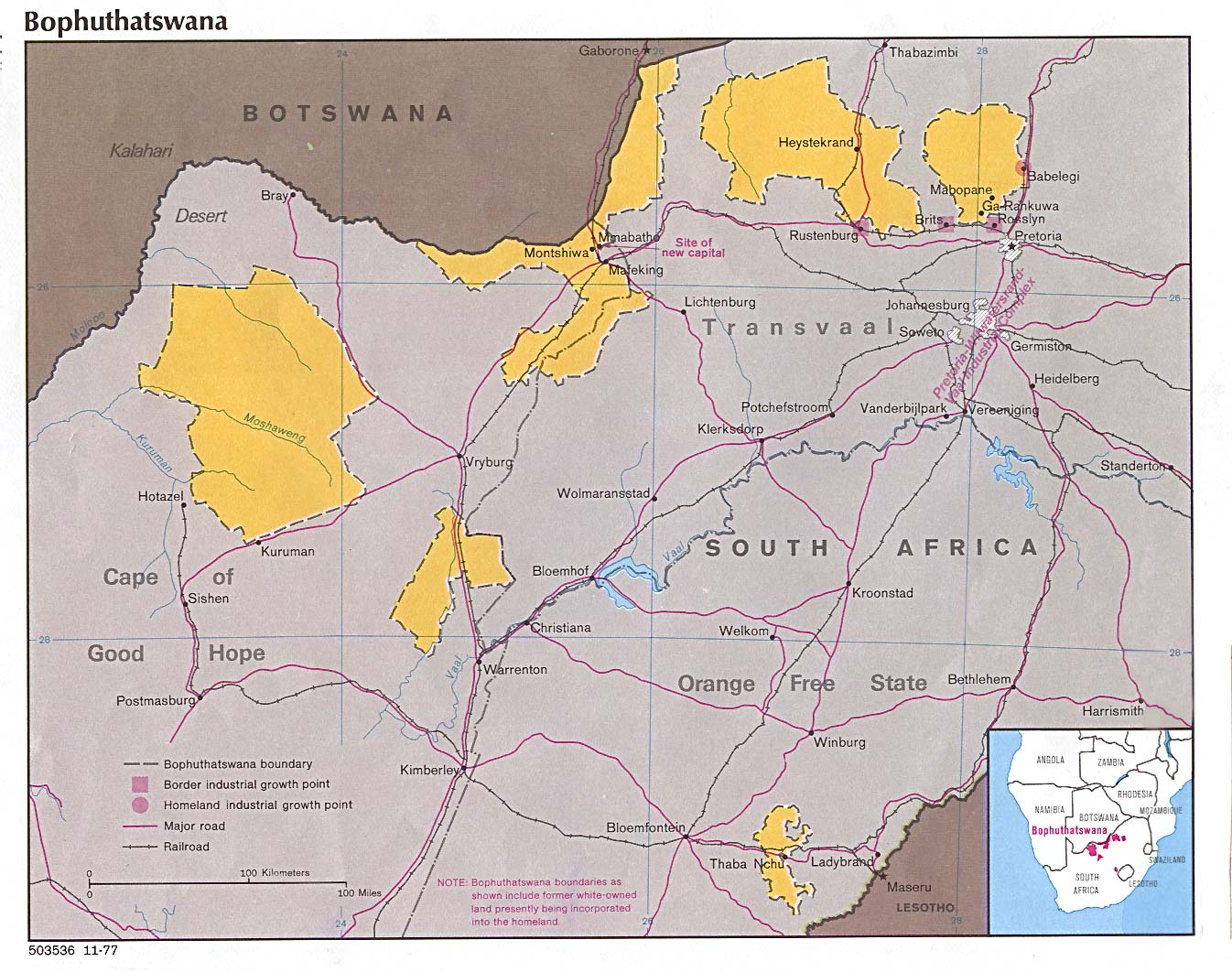 From the Perry-Castaneda Map Collection. Produced by the CIA.